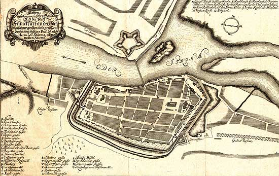 Map of Frankfurt (Oder) from 1706 by Leonhard Christoph Sturm